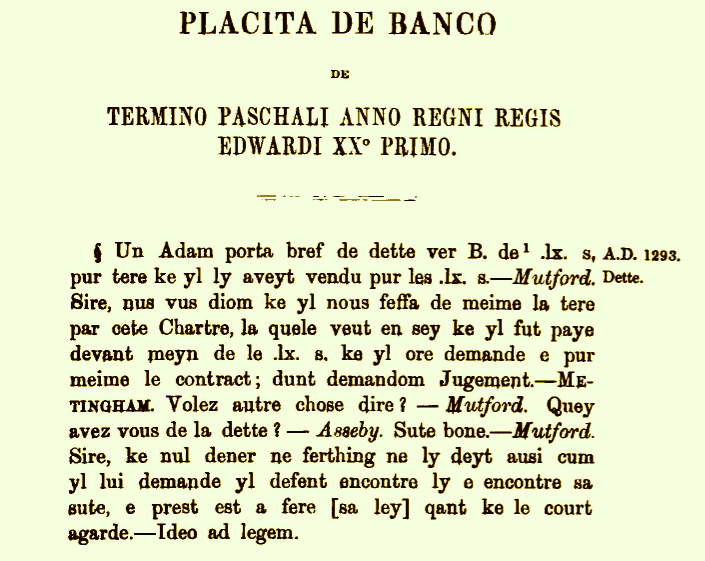 A Year Book report of a 1293 case.